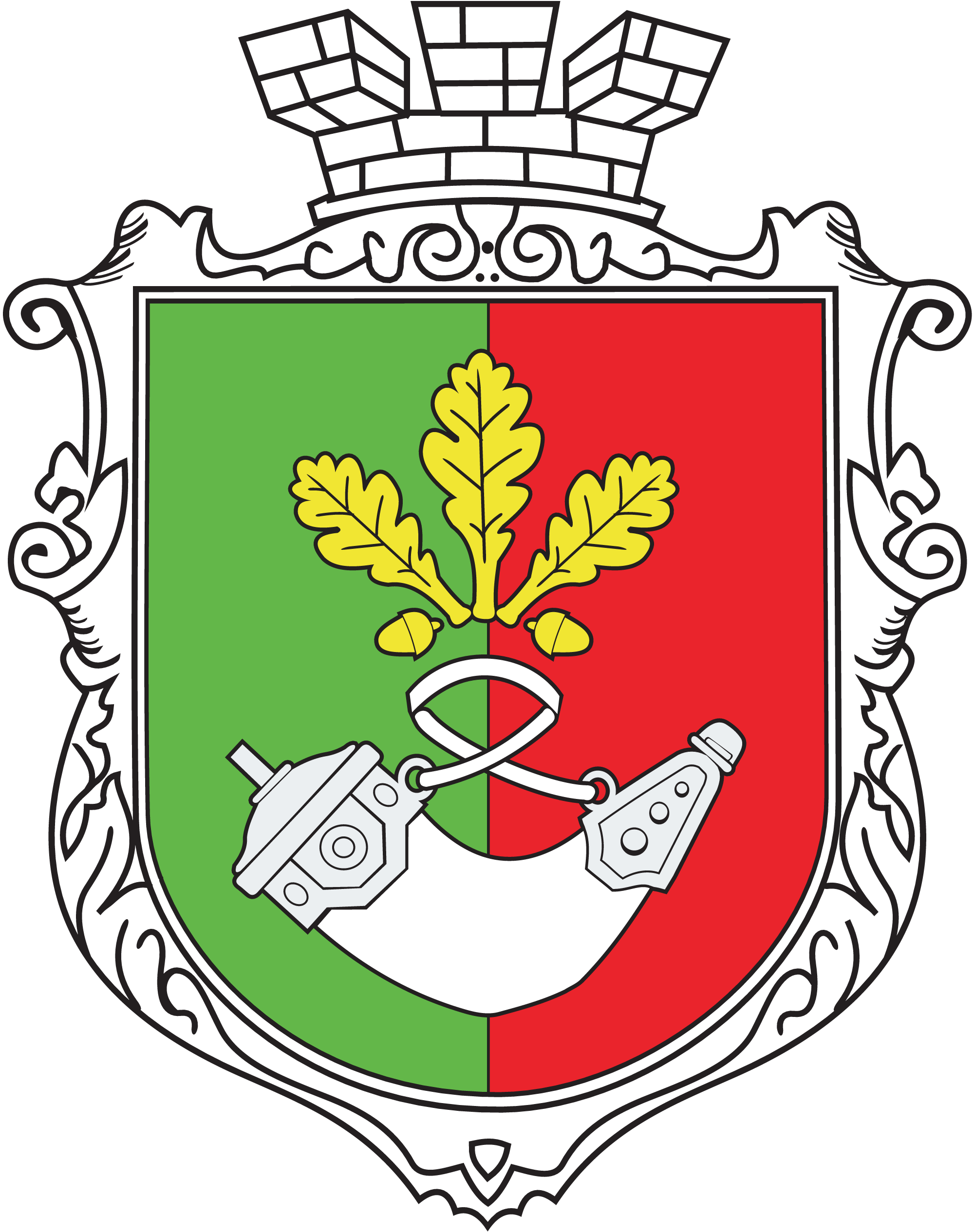 Coat of Arms Kryvy Rih Ukraine